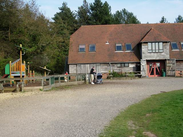 Itchen Valley Country Park visitor centre